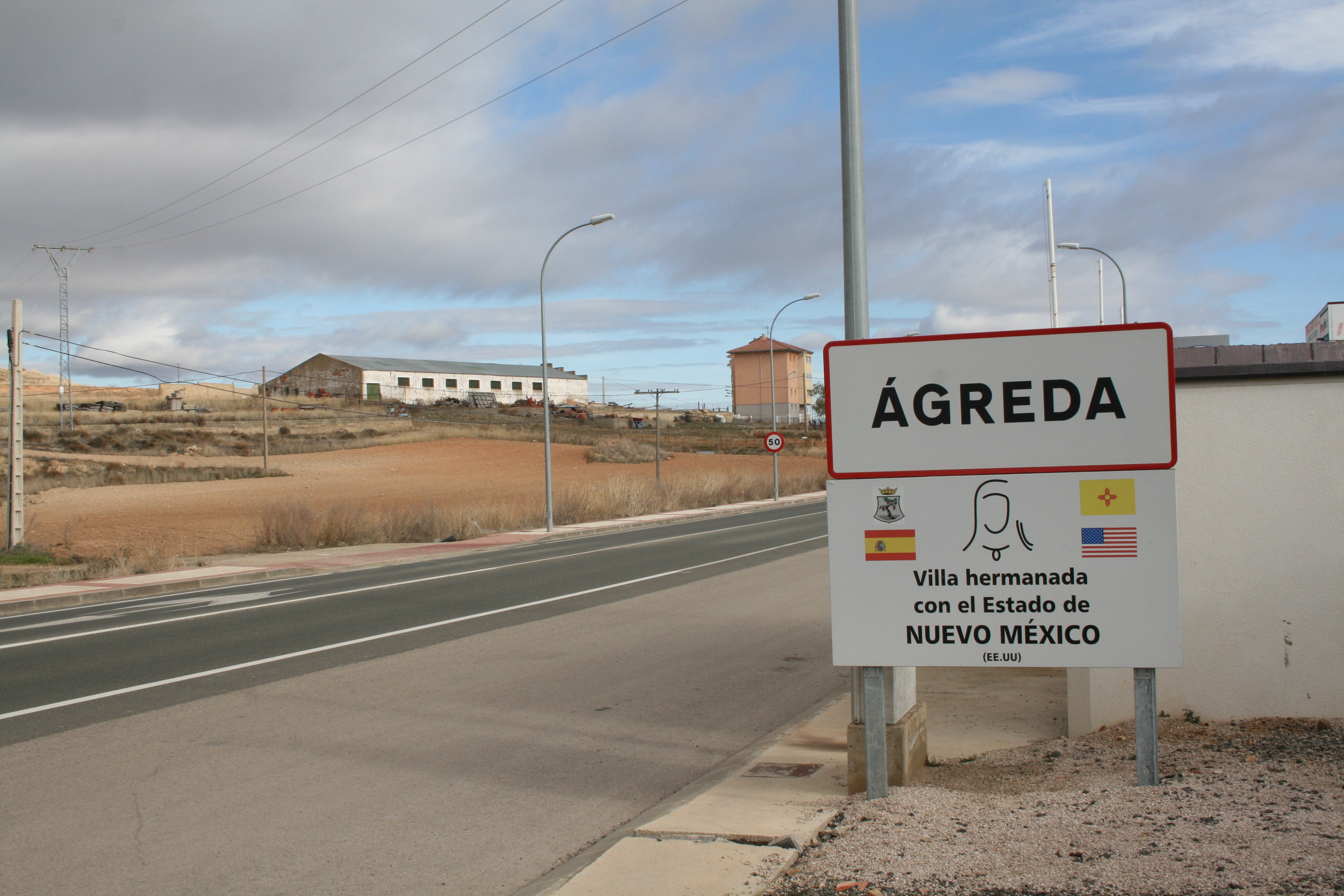 Entrance signal in Ágreda, Spain